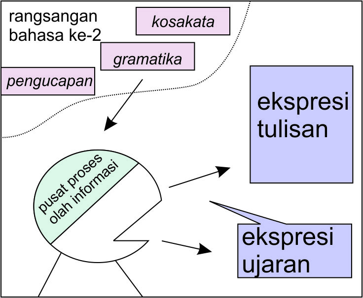 Picture of how language processing.